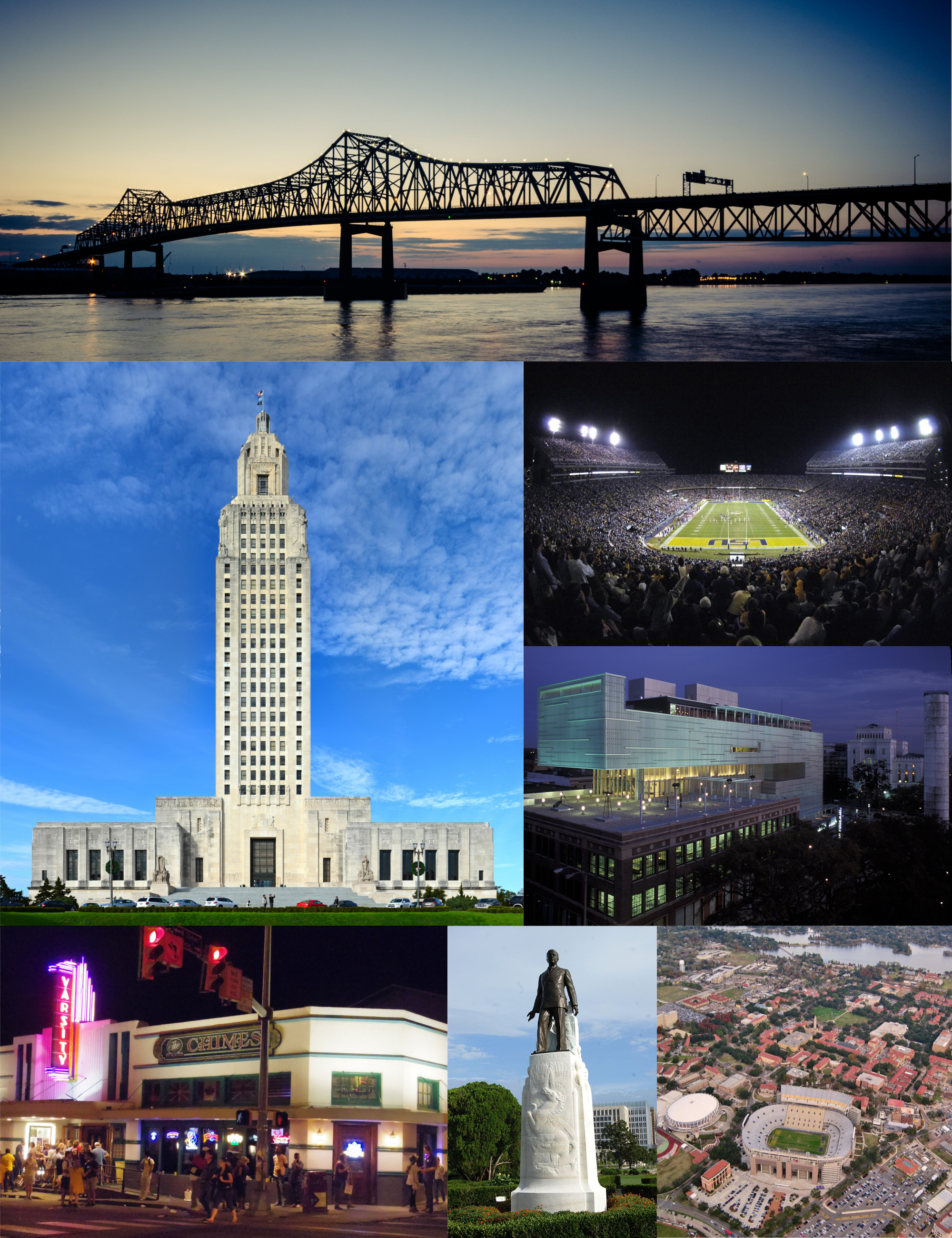 Monatge of images from various parts of Baton Rouge.